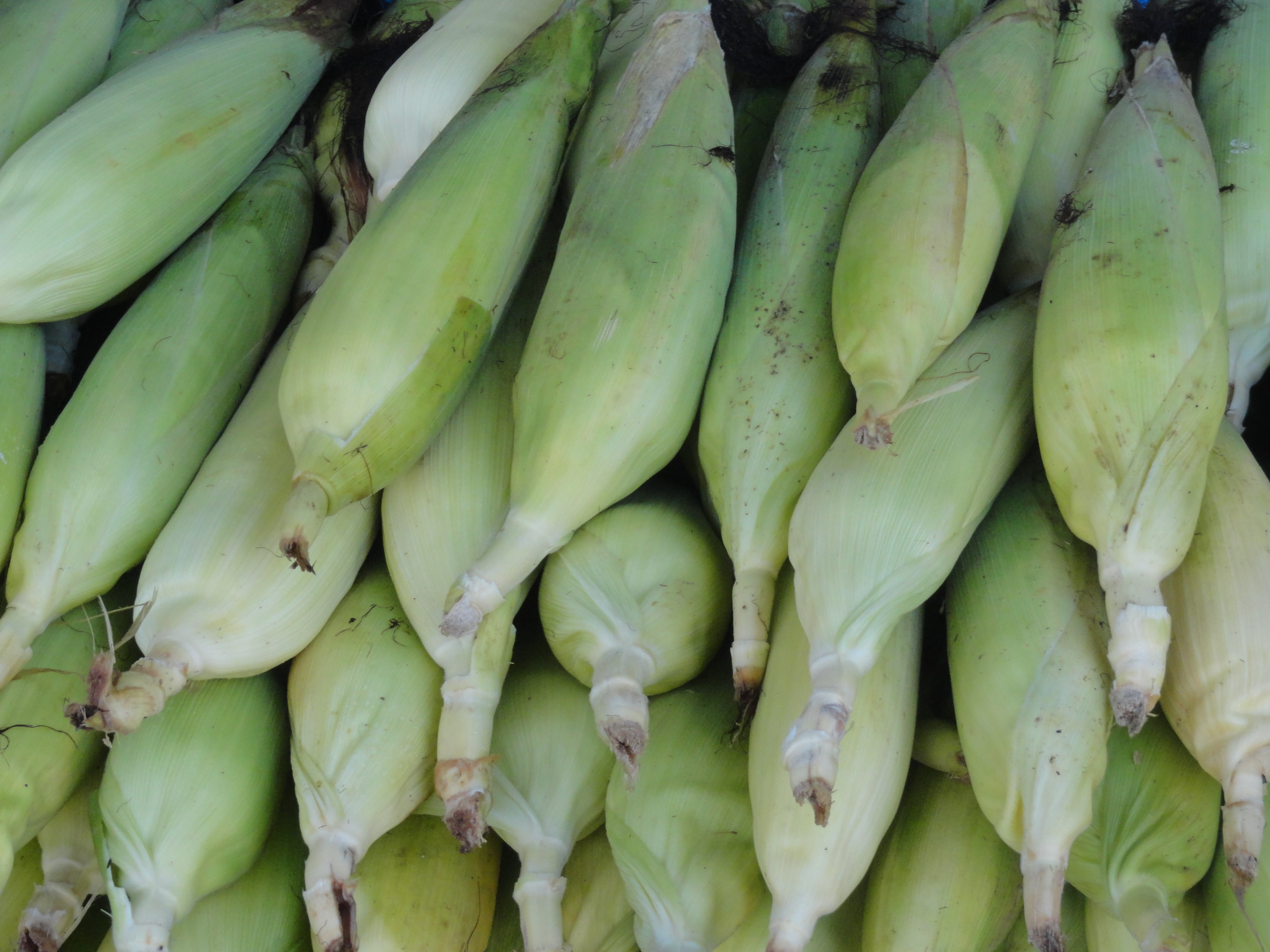 మొక్కజొన్న బుట్టలు అమ్మకానికి. వినాయక చవితికి. వనస్థలి పురంలో